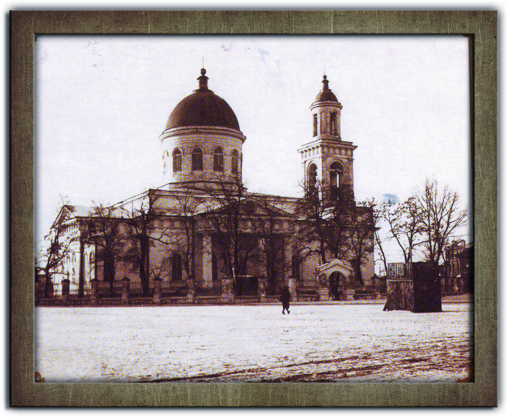 Svyato-Vosnesenskiy temple